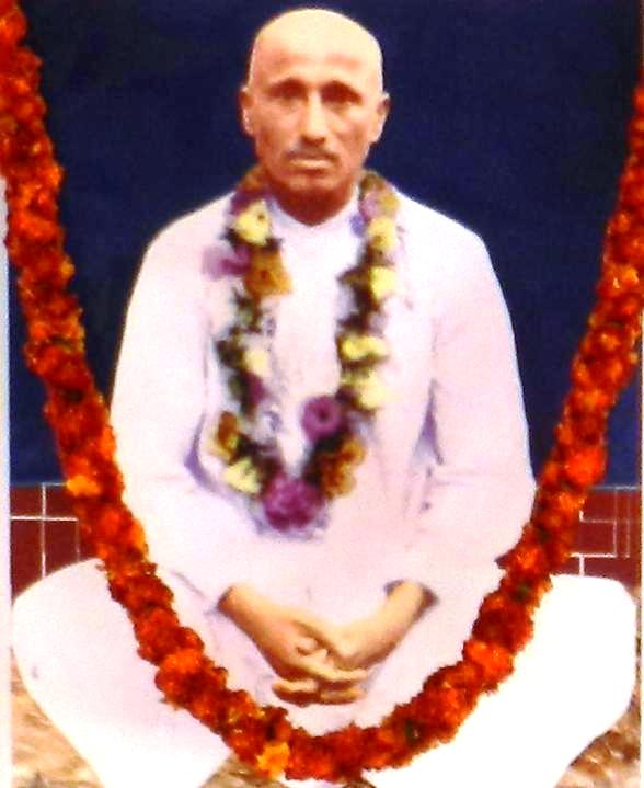 Sri Appaya Swamiji, a very great soul, a real devotee with great realizations. From the year 1885, and left his body in the year 1956.